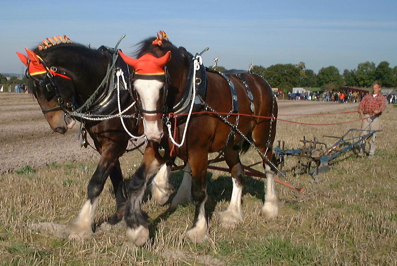 A pair of Shire horses pretending to plough (not actually ploughing) near Selbourne, Hampshire, UK.